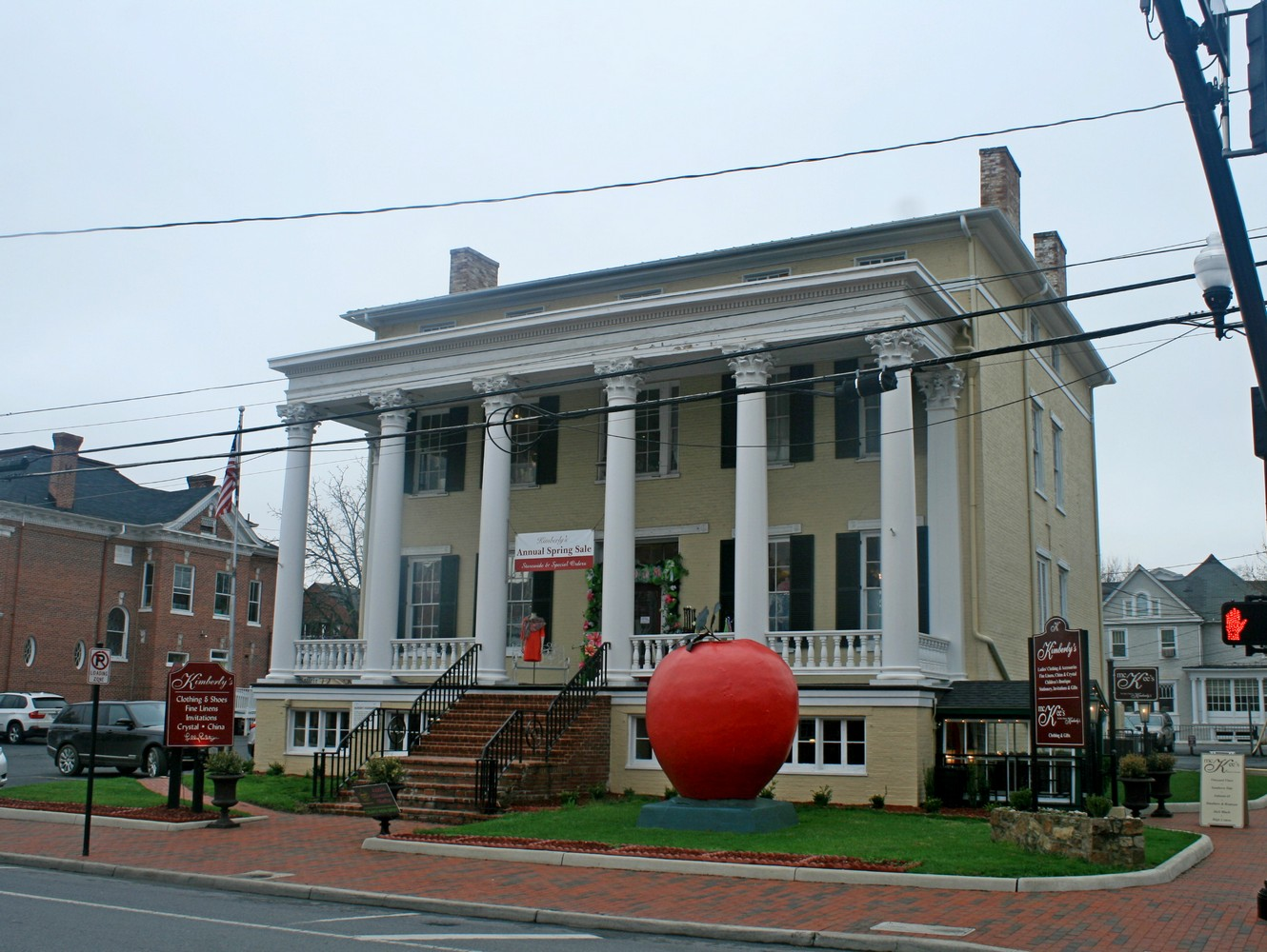 Lloyd Logan, a wealthy tobacco merchant, built this Greek Revival house in 1850. Union General Milroy selected this house as his headquarters when he arrived in 1862, “rudely evicting” the Logan family. It was also used as headquarters by Union General Philip Sheridan in 1864. The large red apple in a 20th-century addition by the Elks Club, which used the building as its headquarters from 1913-1989.